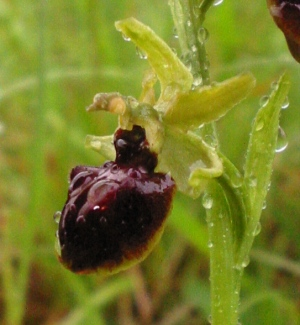 Ophrys sphegodes a Montereau (77)